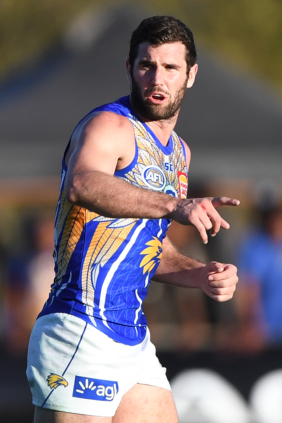 Jack Darling of West Coast during the 2019 AFL round 18 match between Melbourne and West Coast at Traeger Park on Sunday, 21 July 2019 in Alice Springs, Northern Territory.